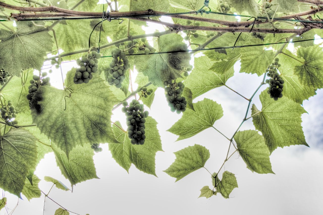 The French-American hybrid grape Baco noir with clusters on the vine.